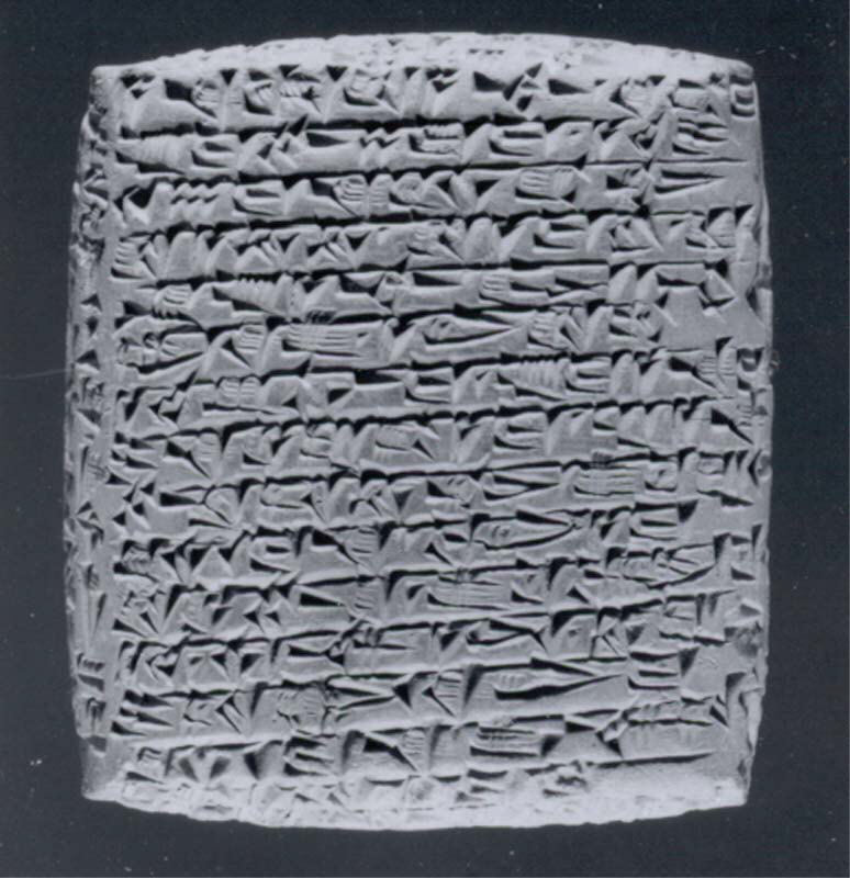 Old Assyrian Trading Colony; Cuneiform tablet; Clay-Tablets-Inscribed